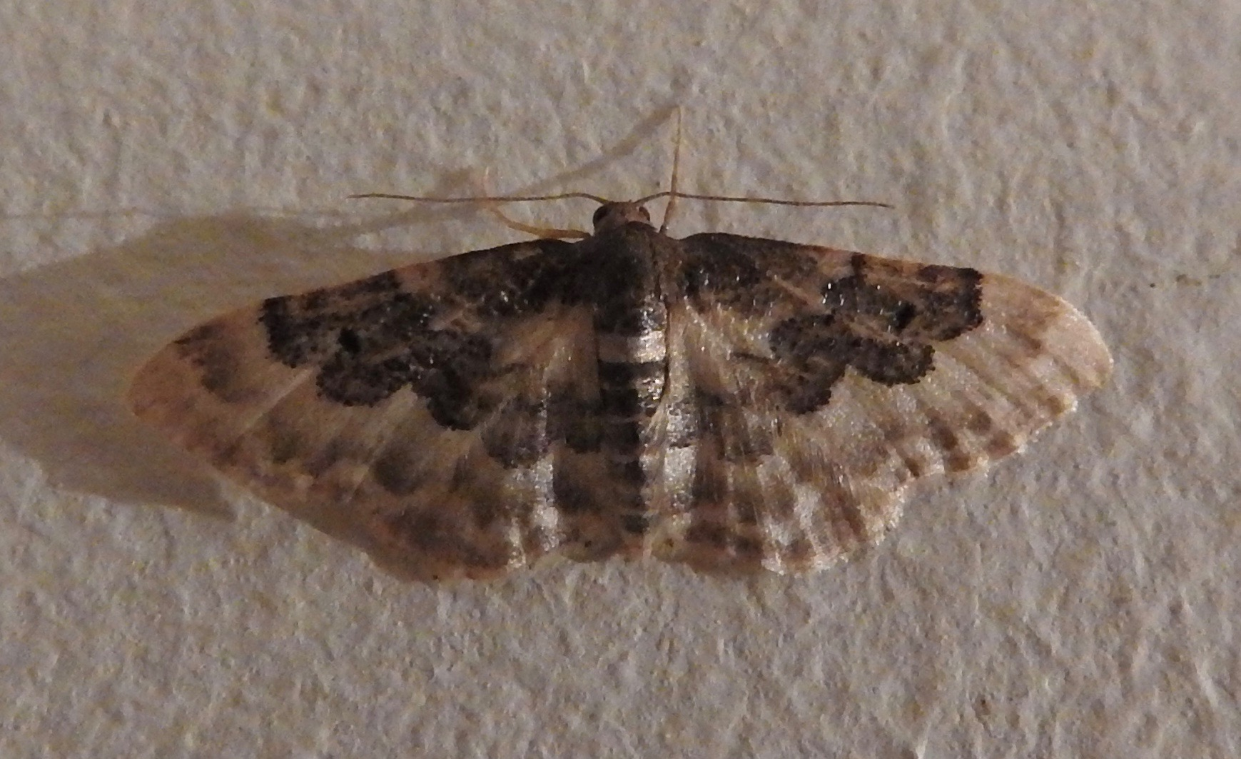 Least Carpet moth